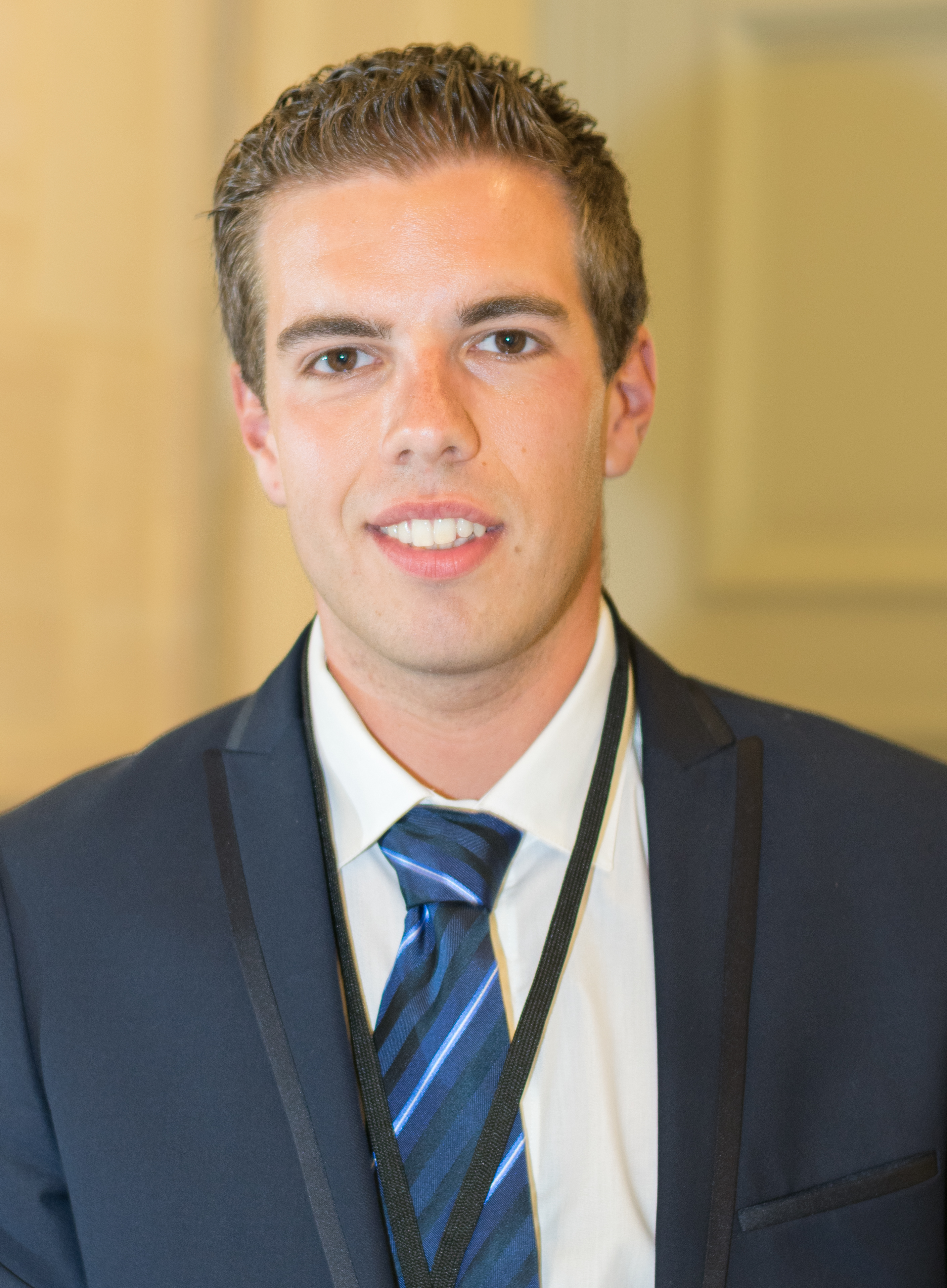 Ludovic Pajot in the salle des Quatres Colonnes of the Palais Bourbon (Paris, France).